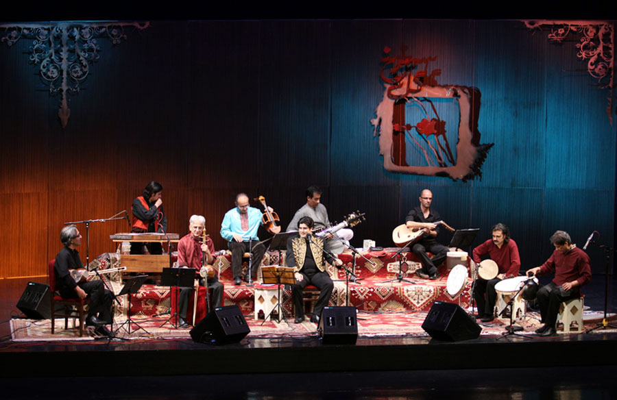 Dastan Ensemble concert with Salar Aghili at Vahdat Hall.